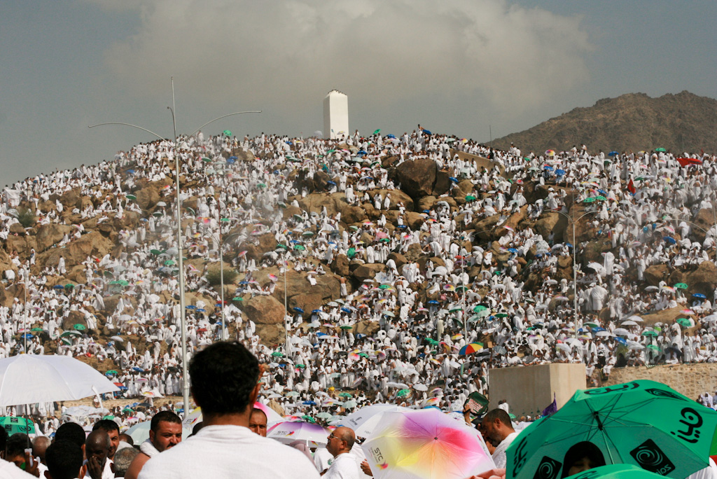 Photo by Omar Chatriwala